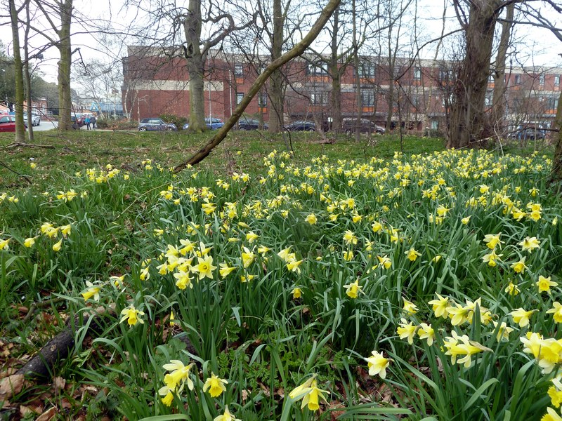 Daffodils at the District General Hospital